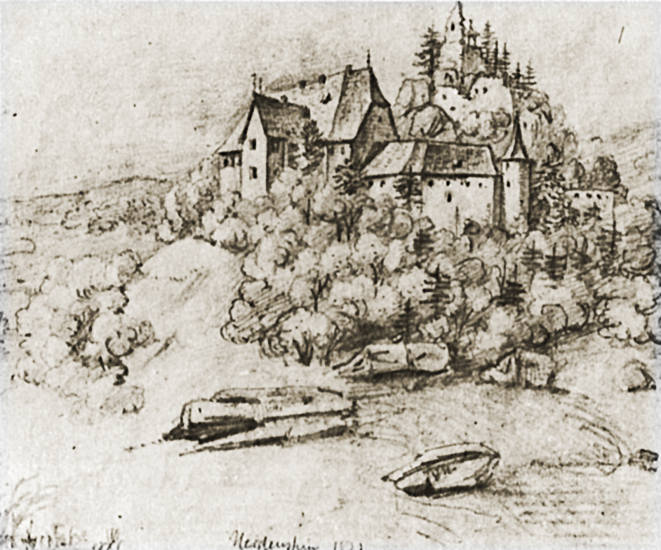 Castle Neidstein (Etzelwang, Bavaria, Germany) - Pencil Drawing, 1832